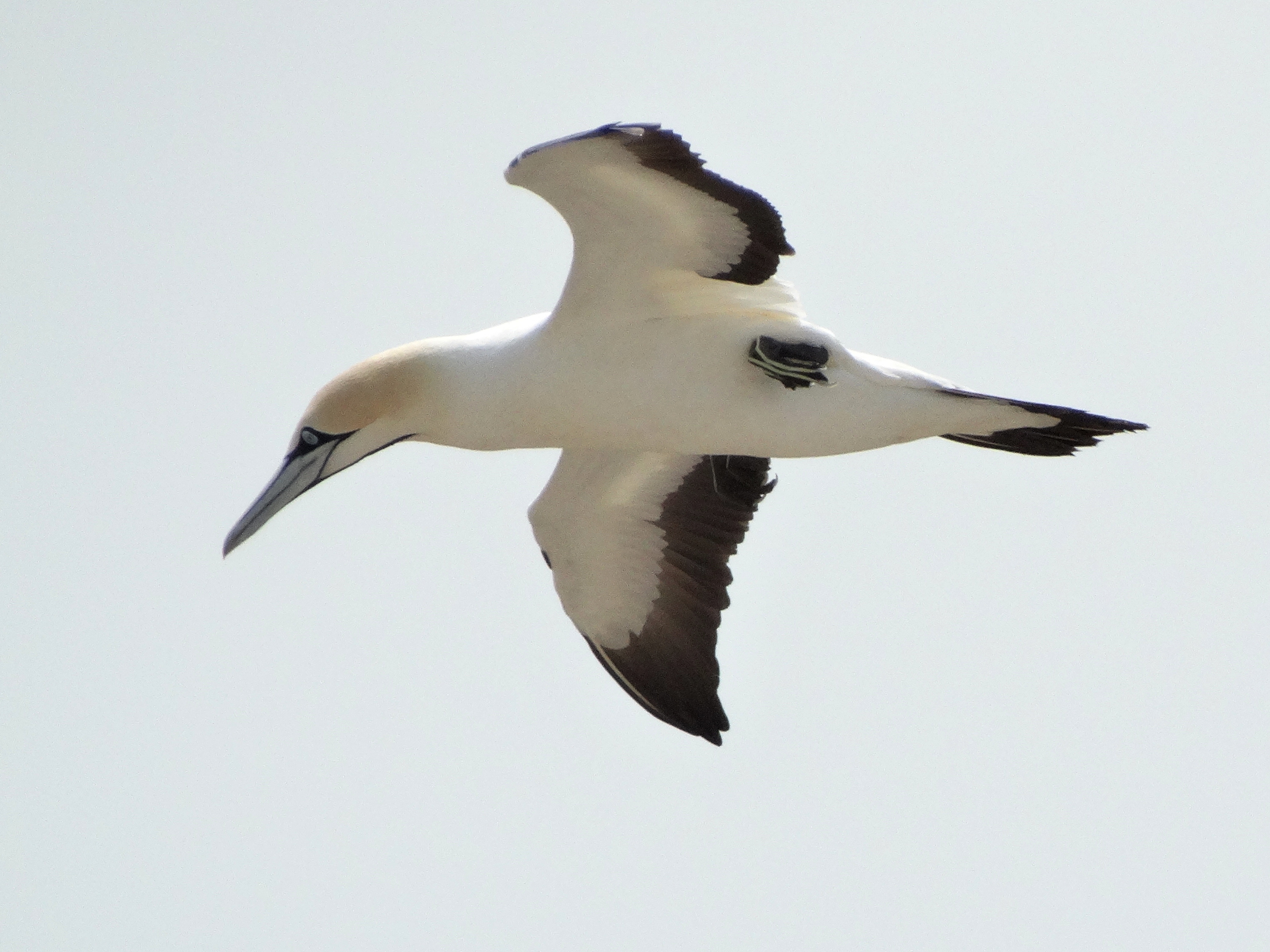 Cape Gannet (Morus capensis) in flight at the colony in Bird Island Nature Reserve, Lamberts Bay, South Africa